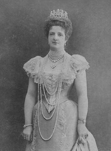 Giacomo Brogi (1822-1881) - Queen Marguerite of Italy.